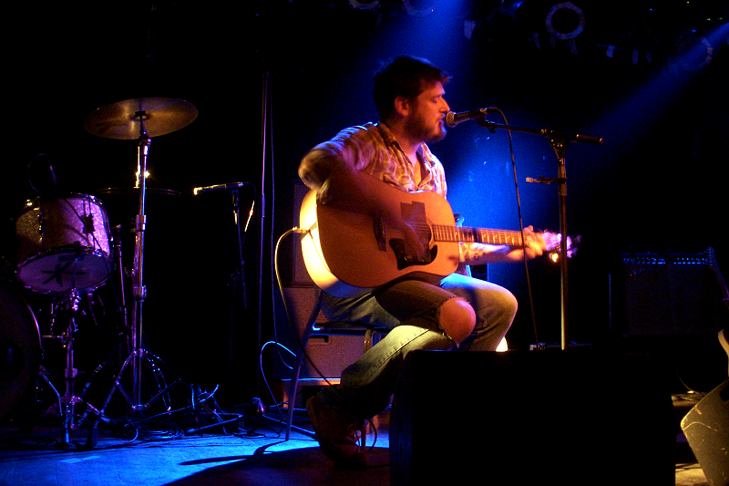 Wooden Wand in concert at Loppen, Chistiania, Denmark